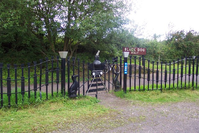 Black Dog Halt, near Calne, Wilts. Black Dog Halt was on the railway branch line between Chippenham and Calne in Wiltshire. The halt was built in 1873 to serve nearby Bowood House; it only became a public station in 1952 and closed with the rest of the line in 1965. The line is now a cycle path, part of the National Cycle Network route 4 from London to the West. The railings are by artist Laura Lian.